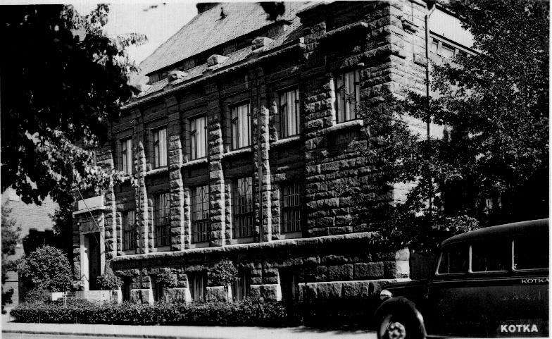 National Bank from Finnland in Kotka